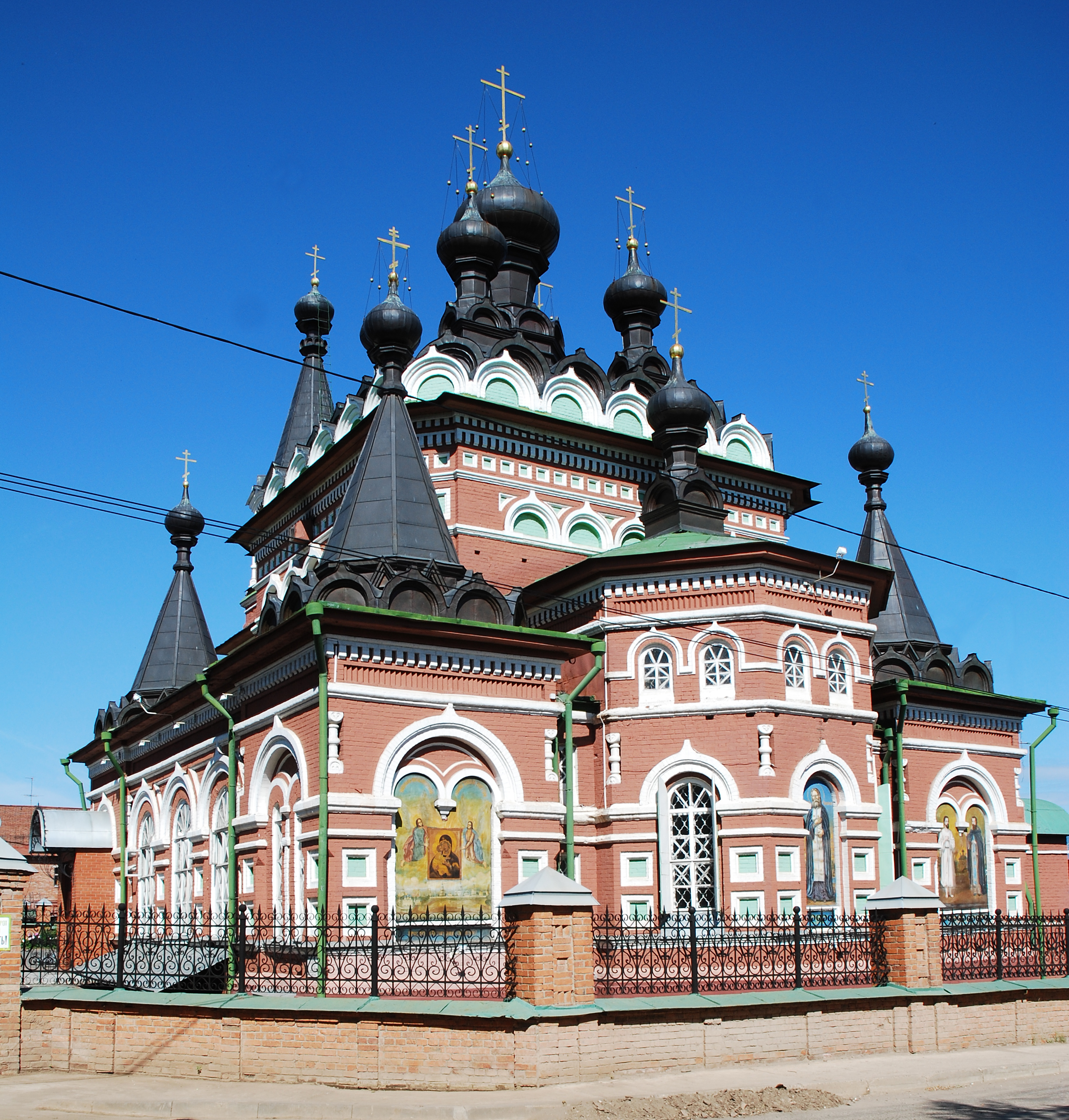 Serafim Sarovsky cathedral of the Vjatsky diocese of Russian orthodox church